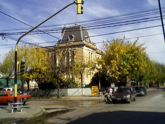 This is the Etcheverry family house, a building dating from the early XX century.